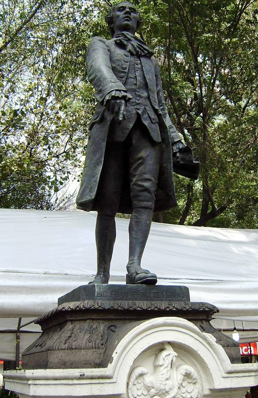 Statue of Francisco Primo de Verdad in Paseo de la Reforma, Mexico City.